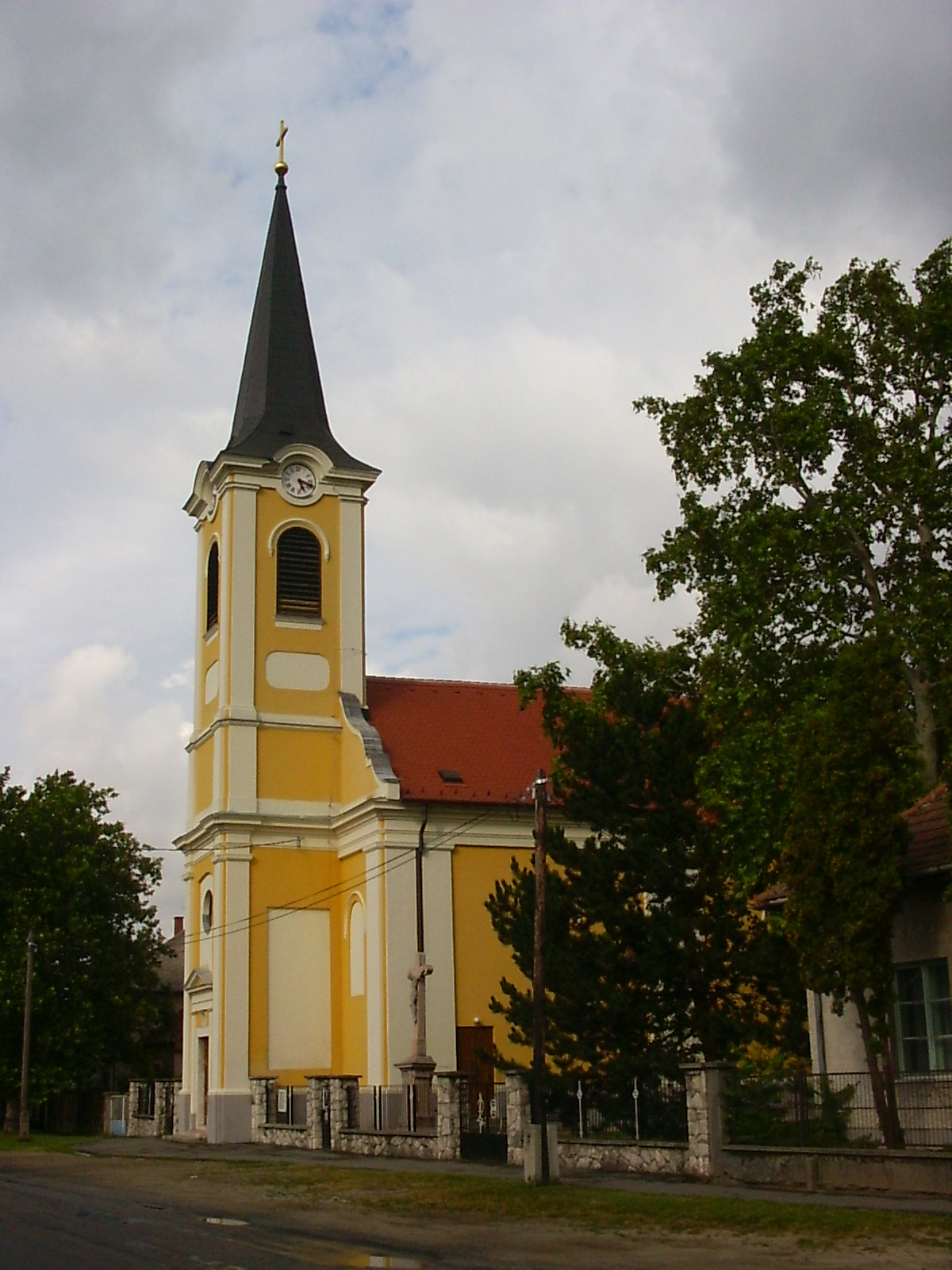 Pér, Roman catholic church This is a photo of a monument in Hungary, Identifier: 4656